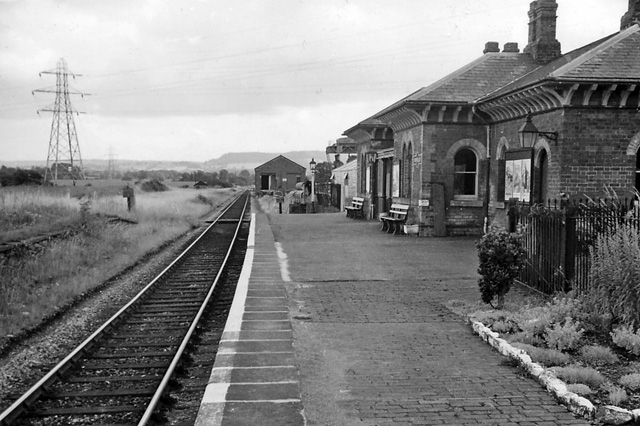 Berkeley Station. Near to Berkeley, Gloucestershire, Great Britain. View eastward, towards Berkeley Road; GW&LMS Joint (Severn & Wye) line, Berkeley Road - Lydney Town. Line and station were closed 2/11/64 (goods 1/11/66), the route having been cut back to Berkeley Road - Sharpness from 26/10/60 after Severn Bridge was broken by a barge.